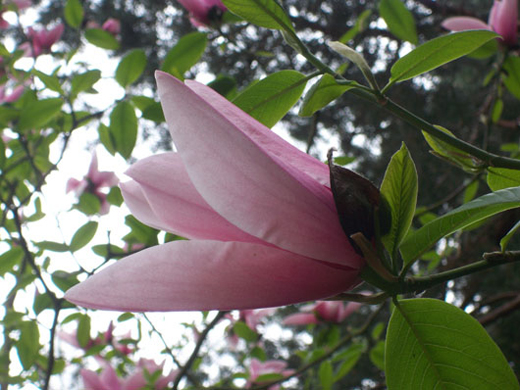 A magnolia among others that you can see in le Bois des Moutiers.